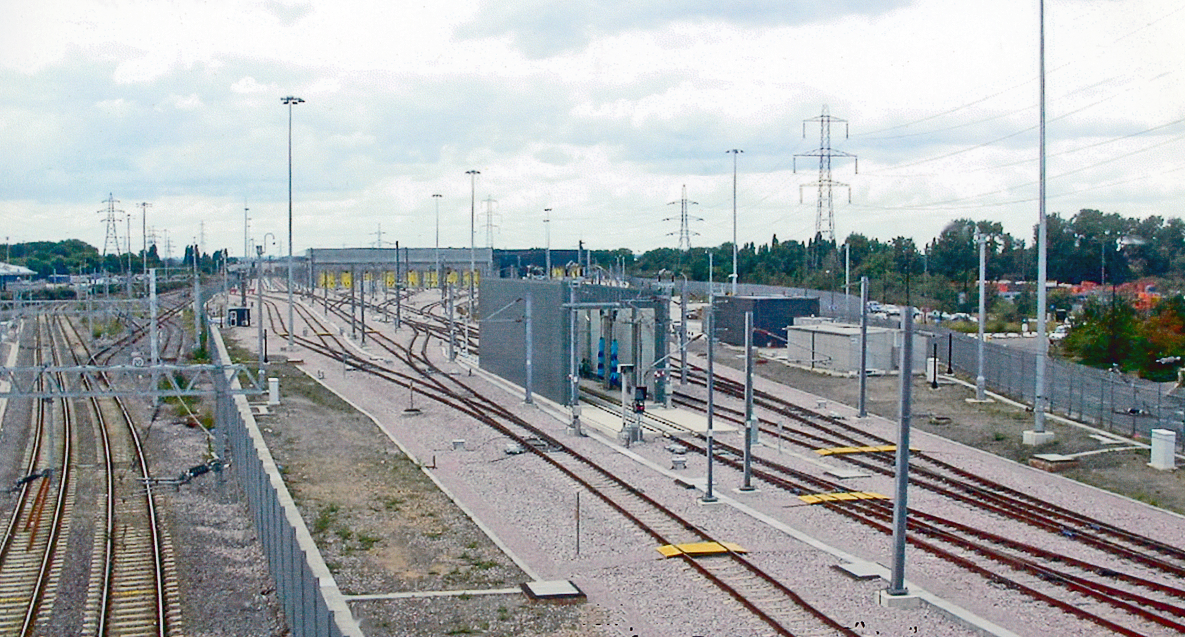 Temple Mills Yard, becoming Eurostar Depot, 2007. View NW from the A106 Ruckhold Road bridge: compare 45 years before, TQ3786 : Temple Mills Marshalling Yard, south end. The ex-GER line from Stratford to Tottenham Hale and the Lea Valley is on the left. In the middle is the carriage-washing plant.